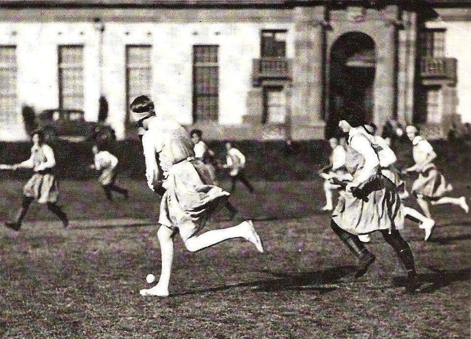 Generations of women continued their sporting careers at universities across Australia. The 'square' at the University of Sydney was levelled for hockey, cricket, baseball and other sports in 1910.